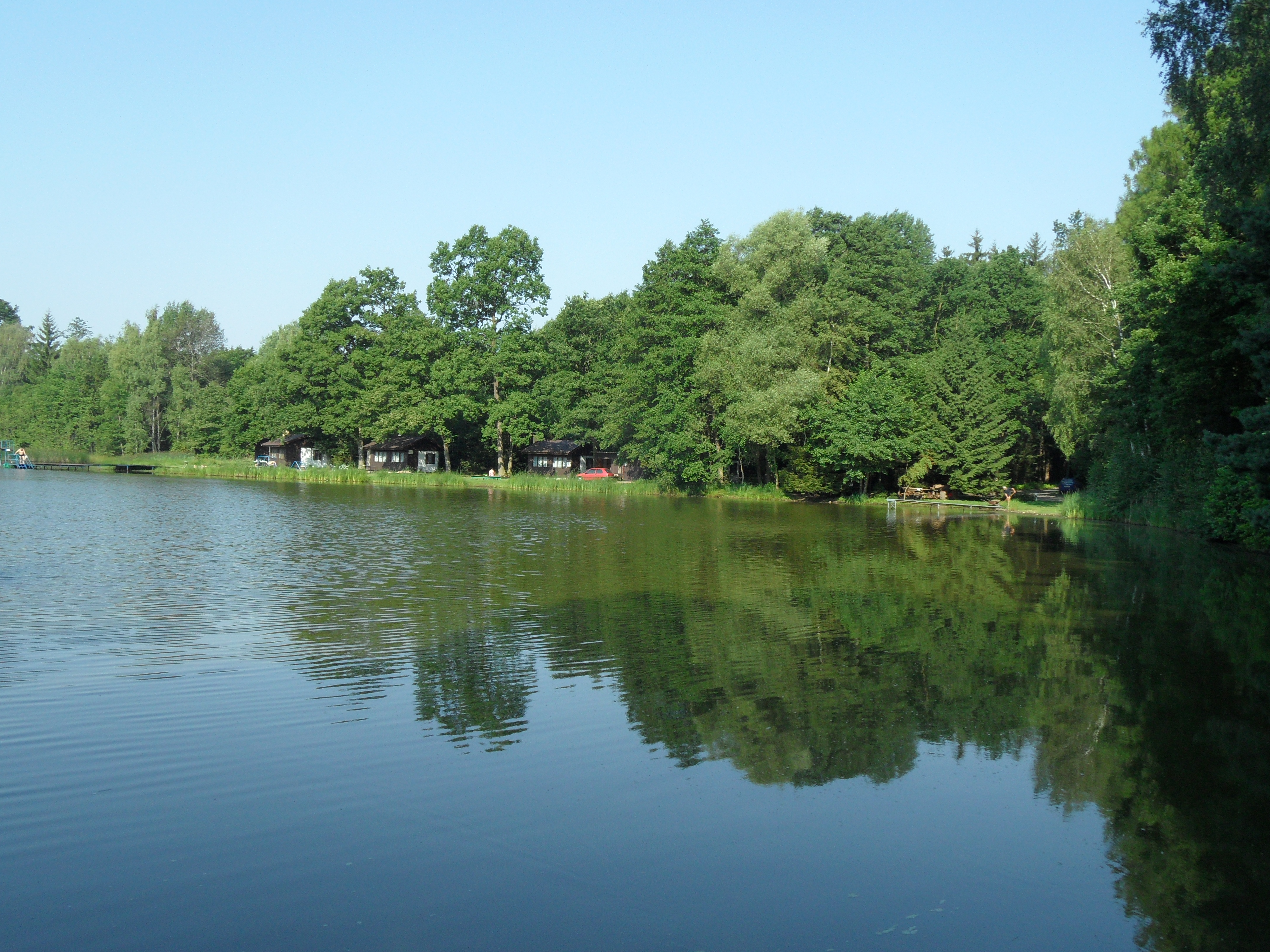 Pastvický rybník G. SouthWest Bank of the Pond with Small Cotages (Philip Morris ČR a.s), Kutná Hora District, the Czech Republic.